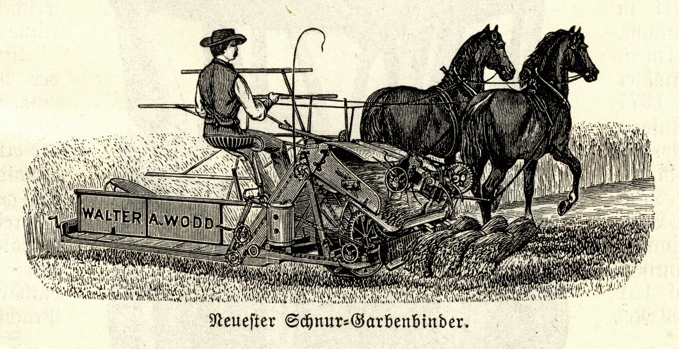 Illustration of a horse-drawn reaper-binder (manufacturer: Walter A. Wodd)